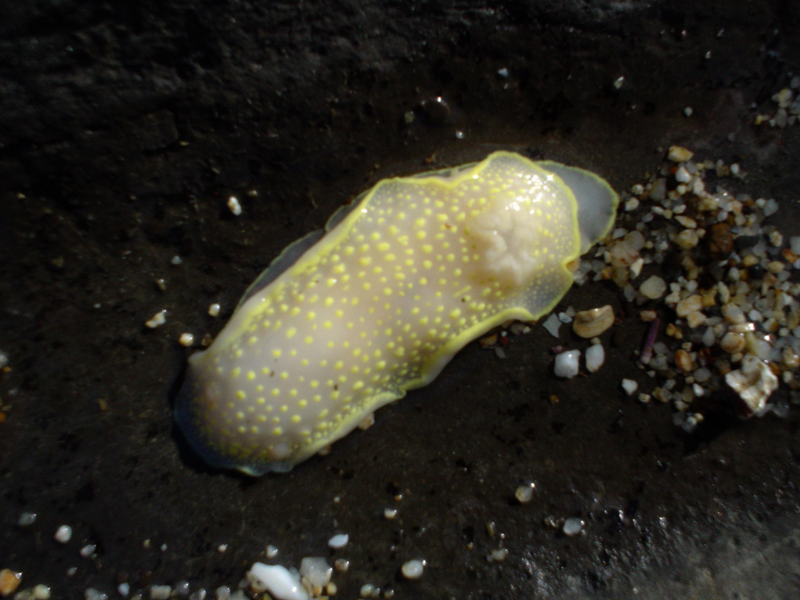 Nudibranch,Cadlina luteomarginata in California tide pools.